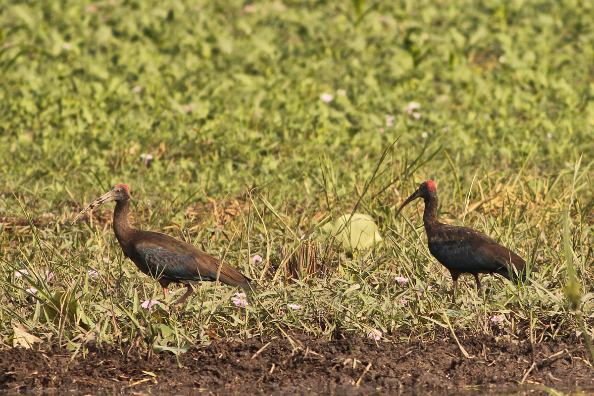 Red-naped Ibis at Kanwar Lake